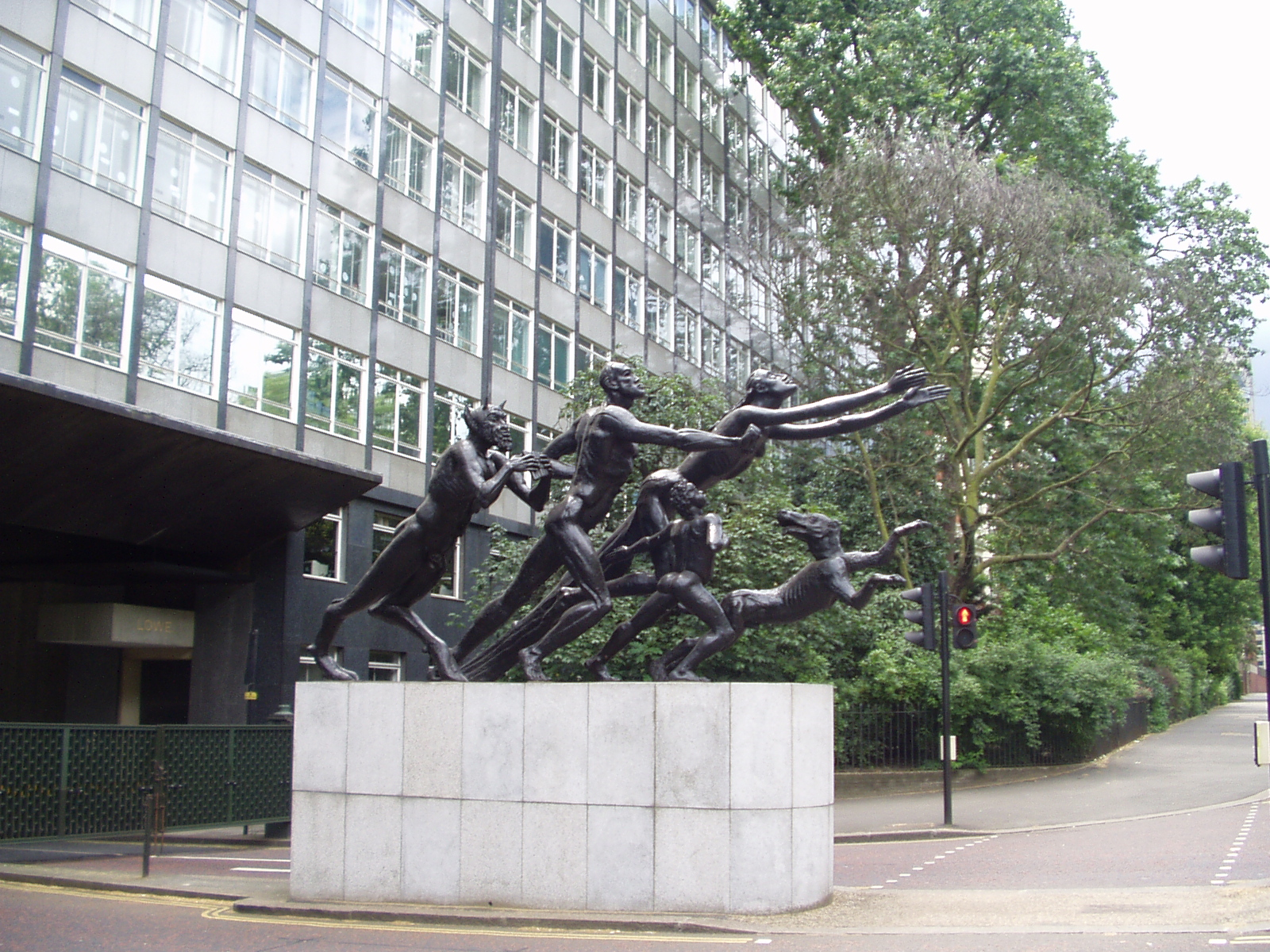 Pan (1959) by Jacob Epstein, Edinburgh Gate, Hyde Park, London